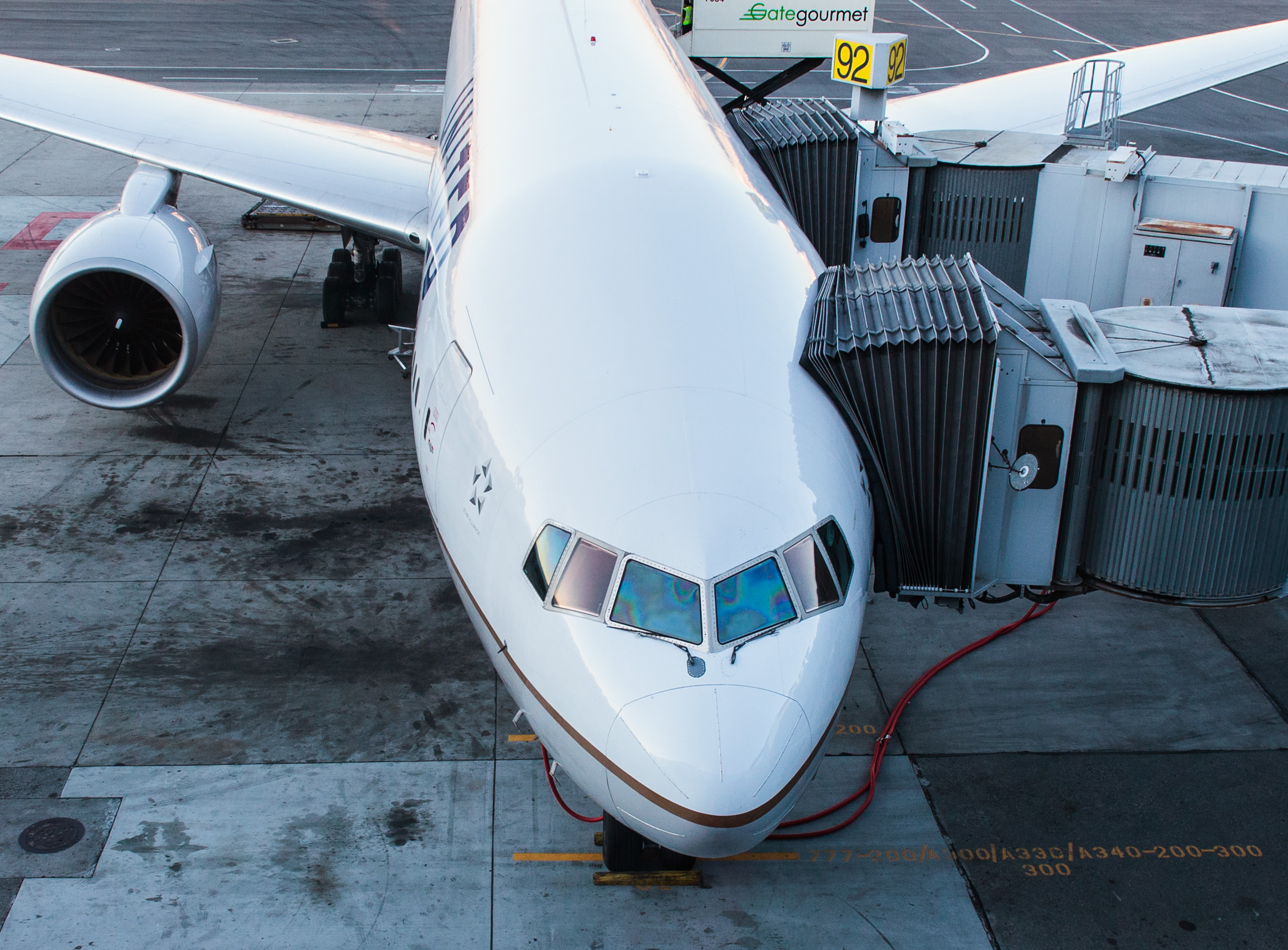 about to depart to LHR